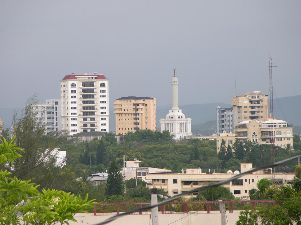 My own work.Picture taken from Los Cerros de Gurabo.